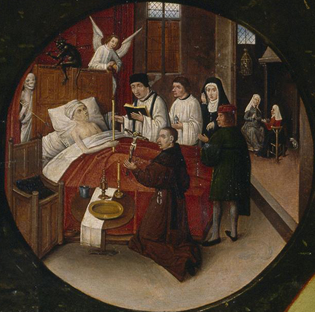 Table of the Mortal Sins [detail: Death].